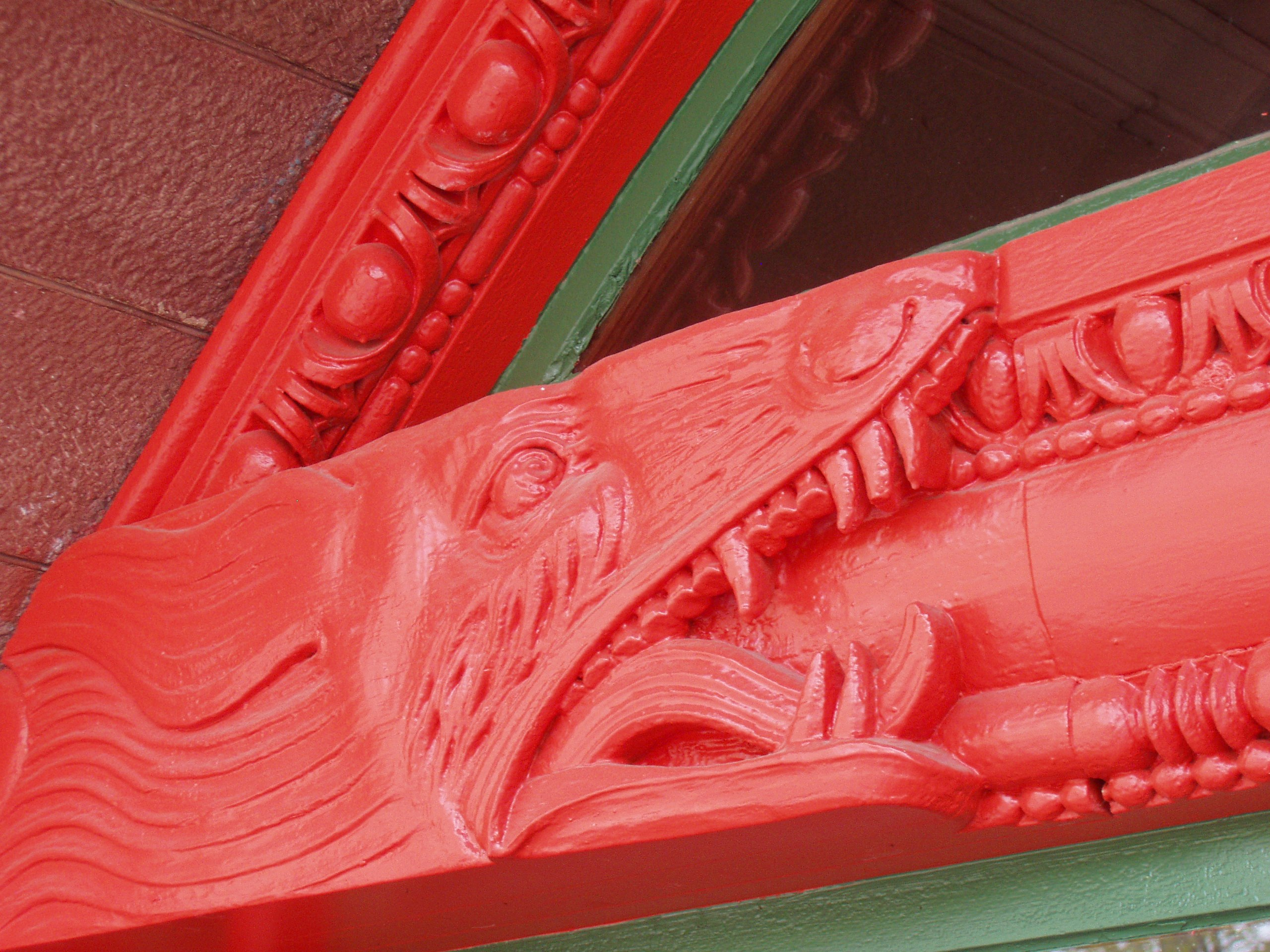 Old Colony Railroad Station, North Easton, Massachusetts, USA. Architect H. H. Richardson. Detail on west facade.